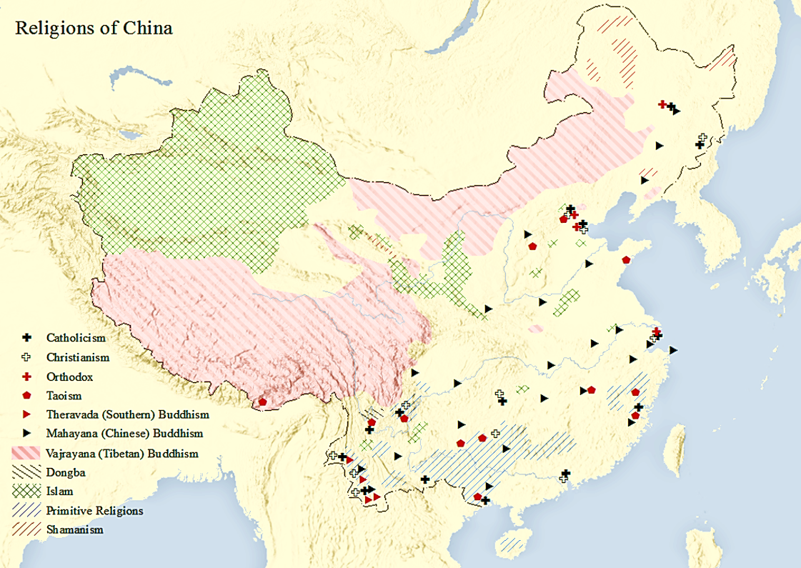 Map of religions in mainland China